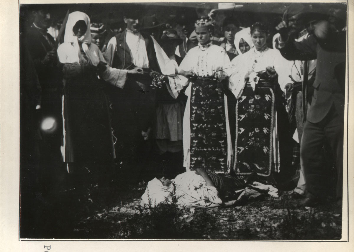 Rusalii, Serbian tradition. 1901